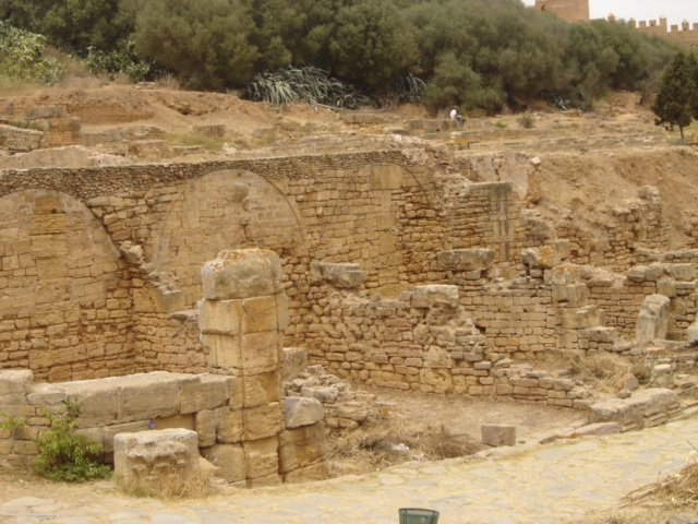 The inside of Chellah